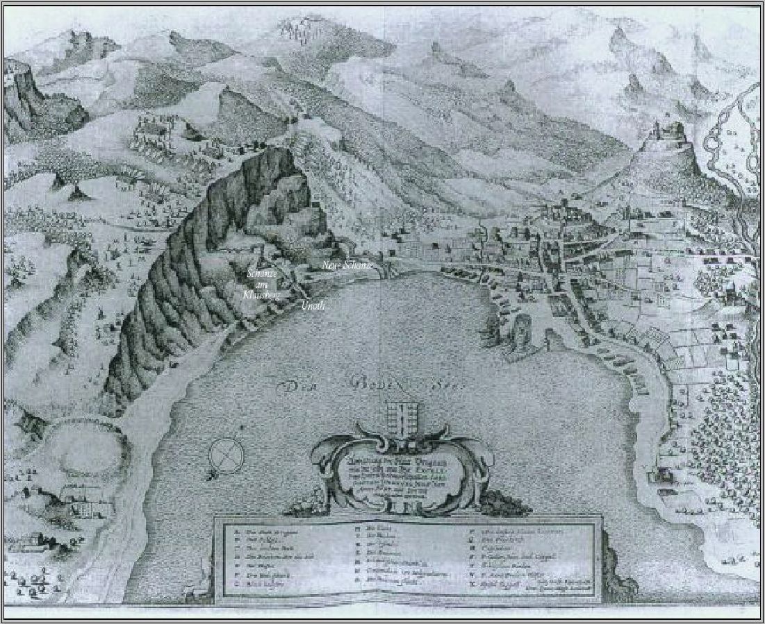 Topography Bregenz, from left to right: Bregenzer Klause, Oberstadt, Ölrain, Gebhartsberg. The illustration shows the storming of the city by the Sweden under Carl Gustav Wrangel, 1646, illustration in Matthäus Merian's Theatrum europaeum. Lettering in the picture supplemented by Asurnipal.